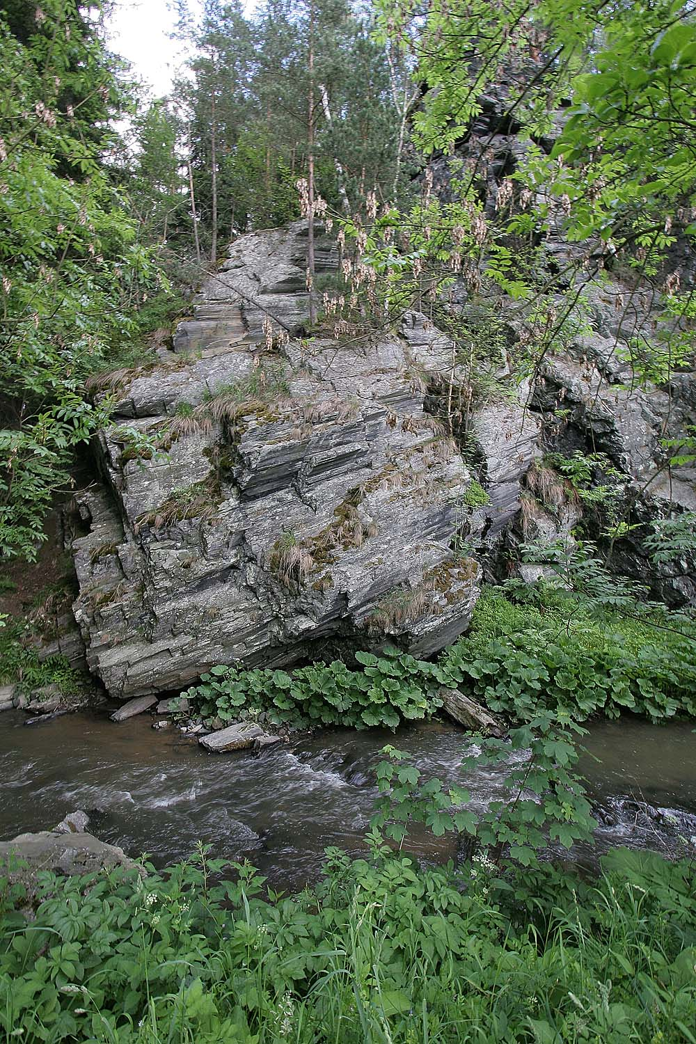 Bohuňov Rocks in valley of the Křetínka west of Bohuňov, Svitavy District, Czech Republic